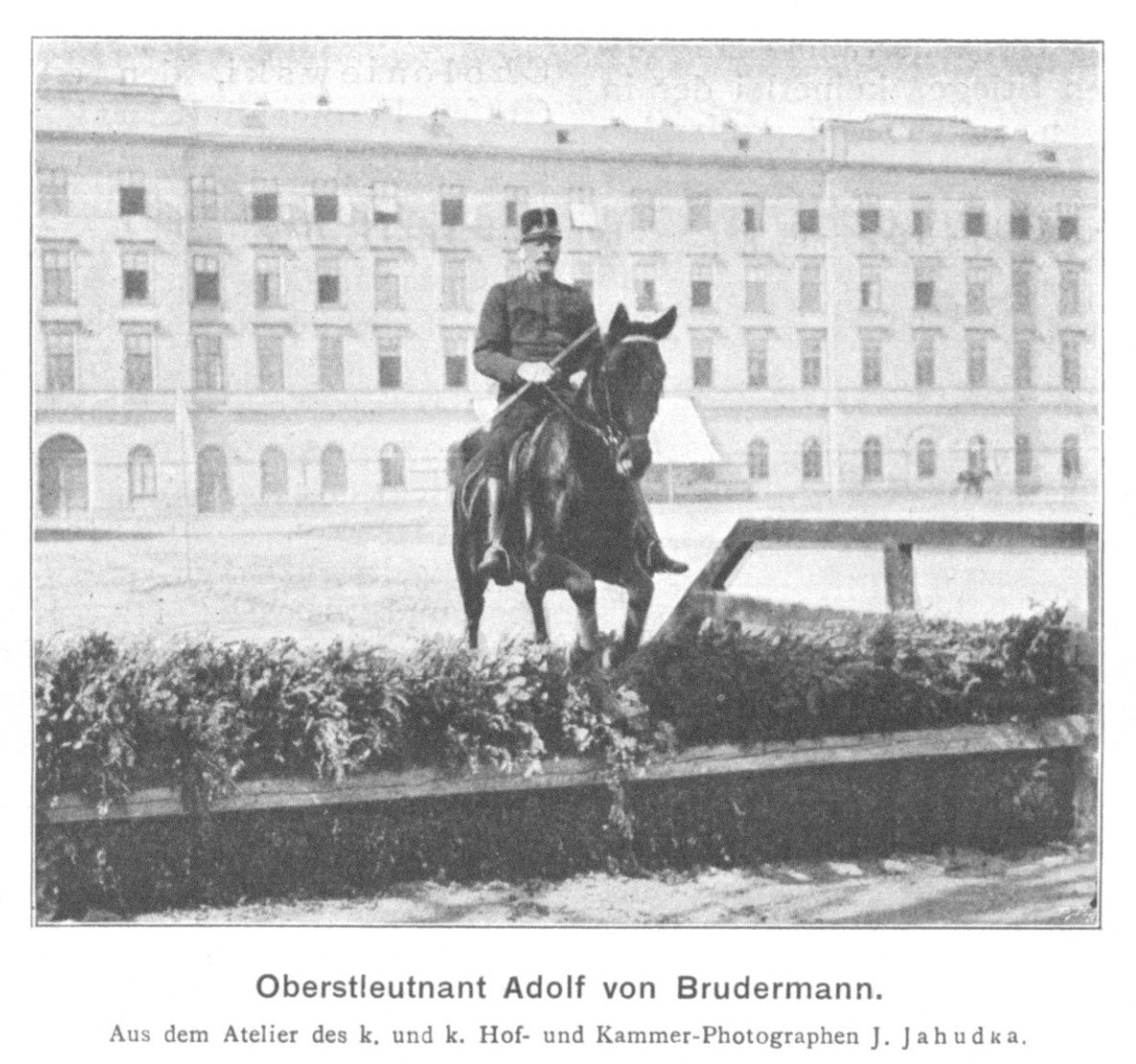 Lieutenant colonel Adolf von Brudermann (1854-1945), a riding instructor at an Austrian military academy, shown while riding a horse.